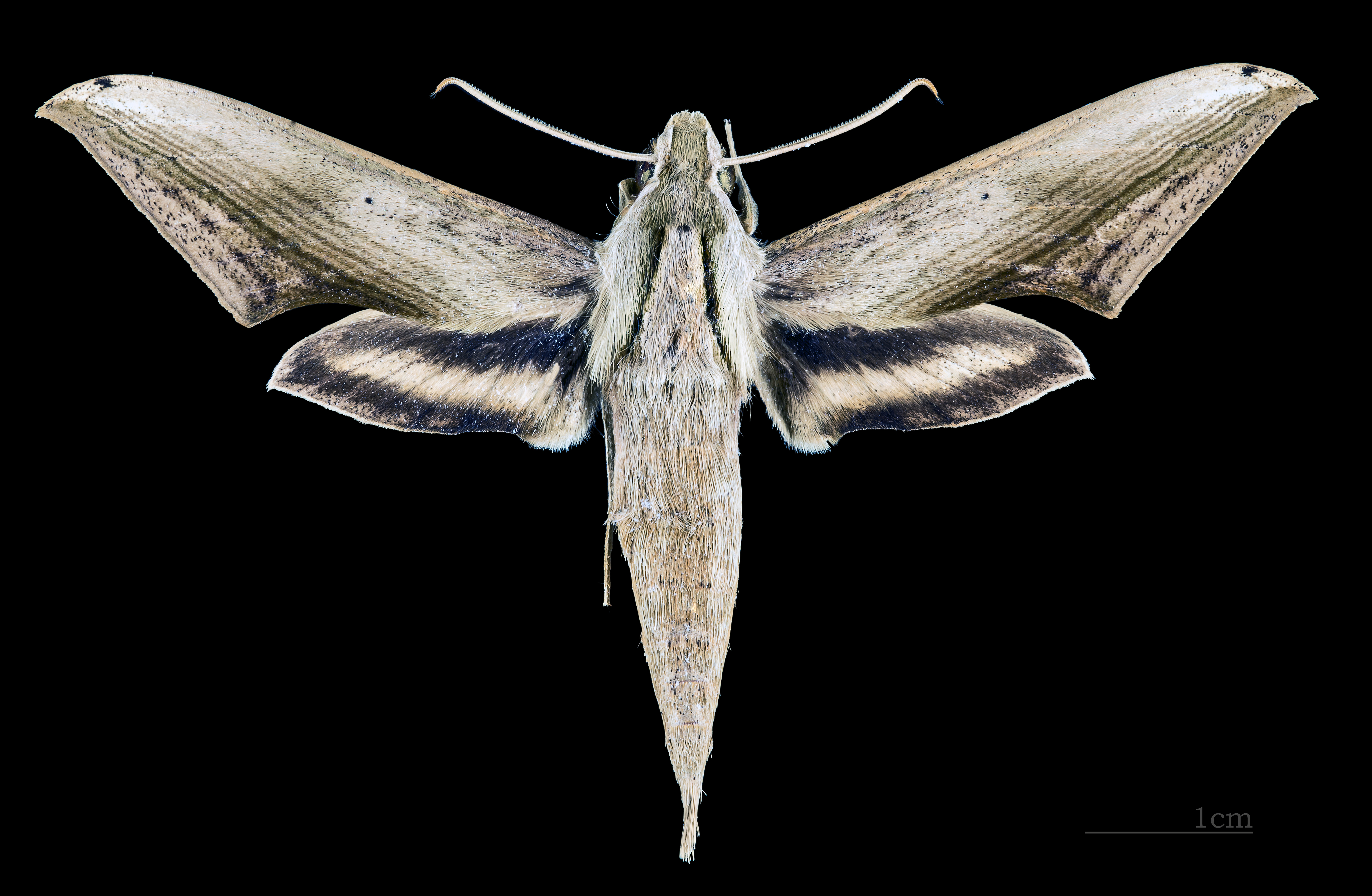 Xylophanes aglaor - Dorsal side Collection of the Mathematician Laurent Schwartz